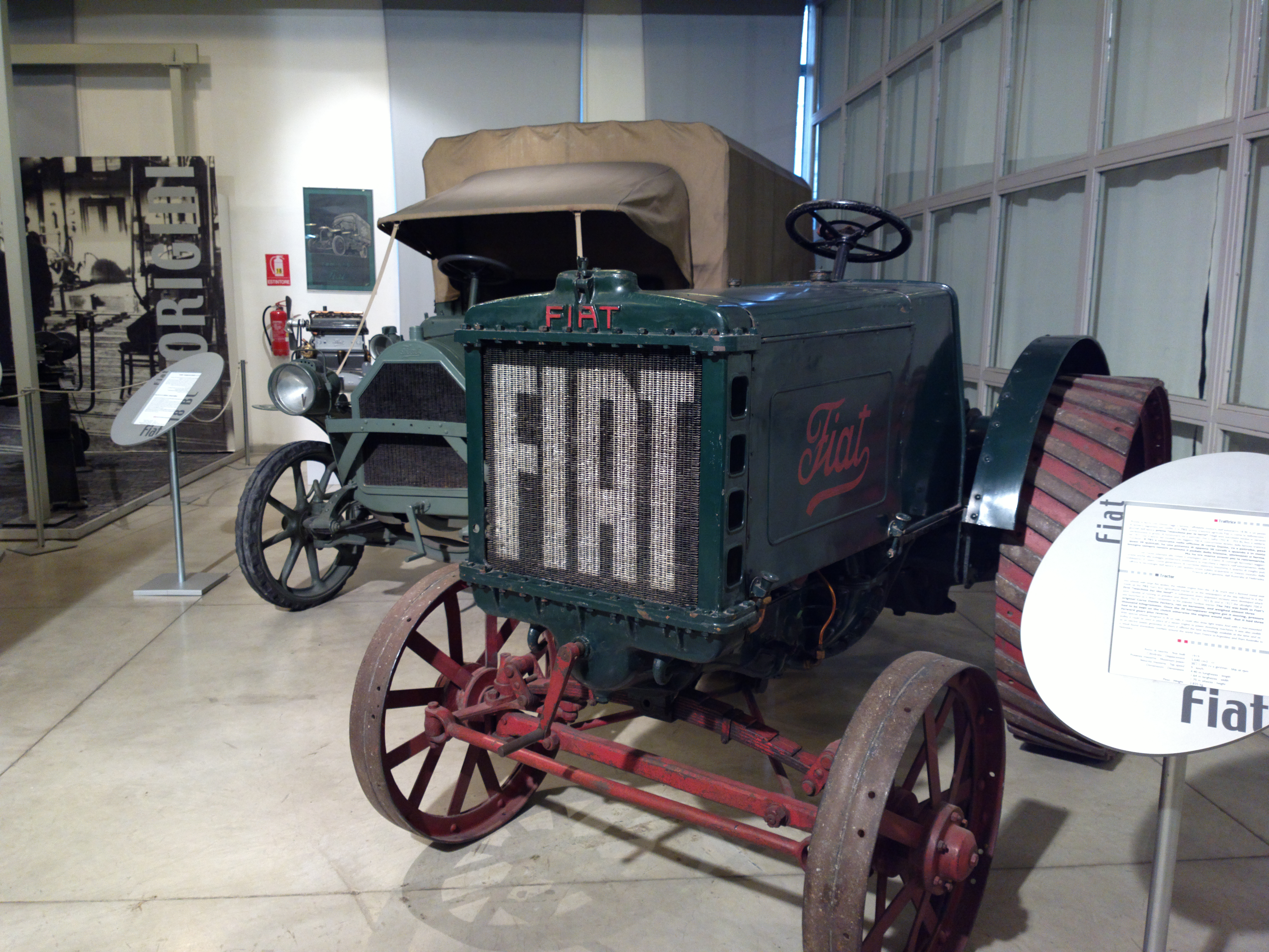 Trattrice Fiat 702 e autocarro Fiat 18BL in esposizione al Centro Storico Fiat, Torino.